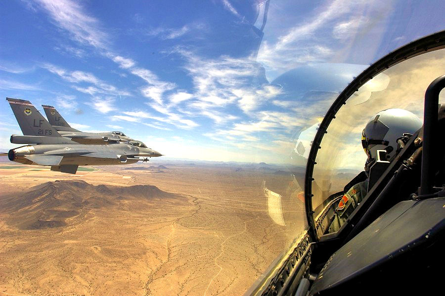 F-16s of the 21st Fighter Squadron, Luke AFB, Arizona